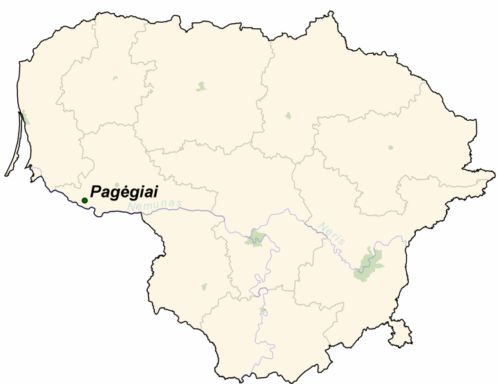 Pagėgiai on the map of Lithuania